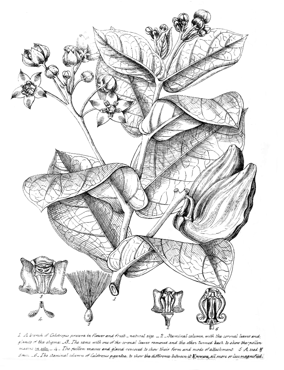 Illustration of Calotropis procera and C. gigantea